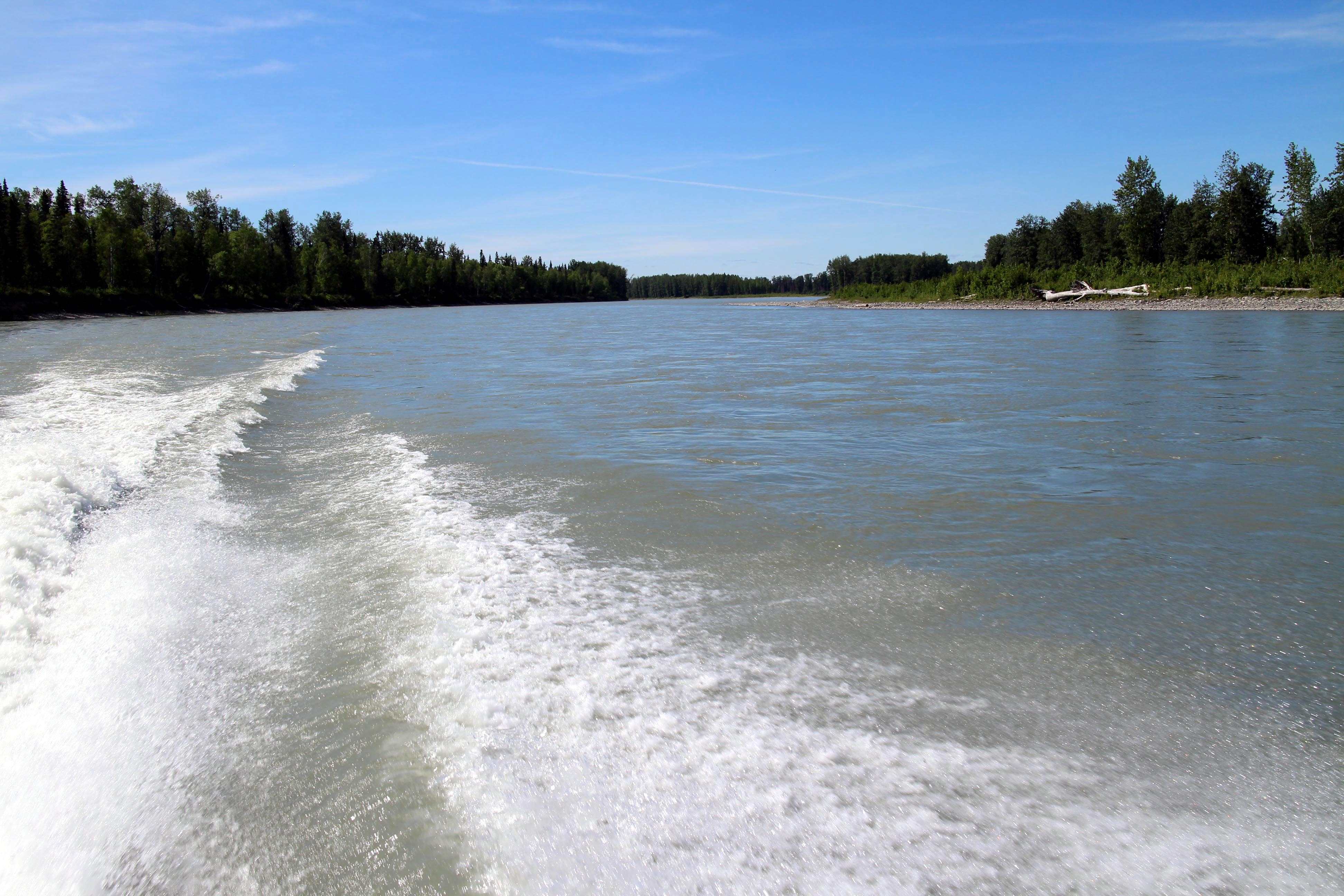 Susitna River on a clear sunny day in June 2015 near Talkeetna. The picture was taken from a boat.